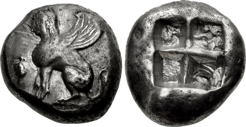 ISLANDS off IONIA, Chios. Circa 490-435 BCE